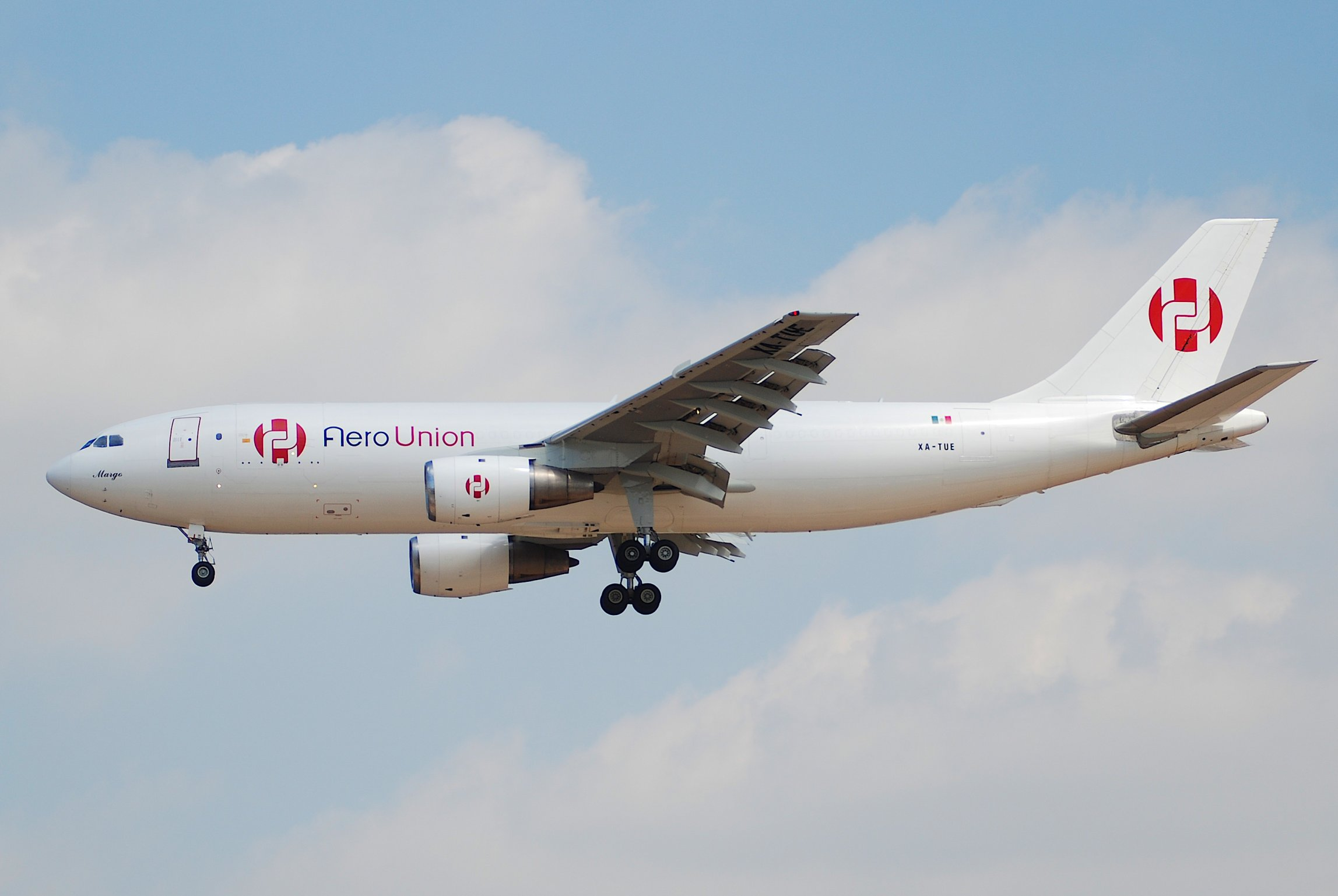 From Reuters: A cargo aircraft crashed late on April 13, 2010 near the airport in the northern Mexican city of Monterrey, killing five people, Mexican emergency authorities reported. The Airbus A-300 aircraft, operated by privately held AeroUnion, crashed near a major road leading to the airport. Some debris from the wrecked jet landed on the grounds of the airport itself, Mexican media reported. First flight: April 6, 1979... 31/05/1979 Air France F-BVGM 02/10/1985 Air Seychelles F-BVGM 01/05/1988 Malaysia Airlines F-BVGM 27/05/1989 Air France F-BVGM 03/03/1998 FSB N828SC 27/02/1999 ICC Cargo C-FICB 12/04/2002 AeroUnion XA-TUE